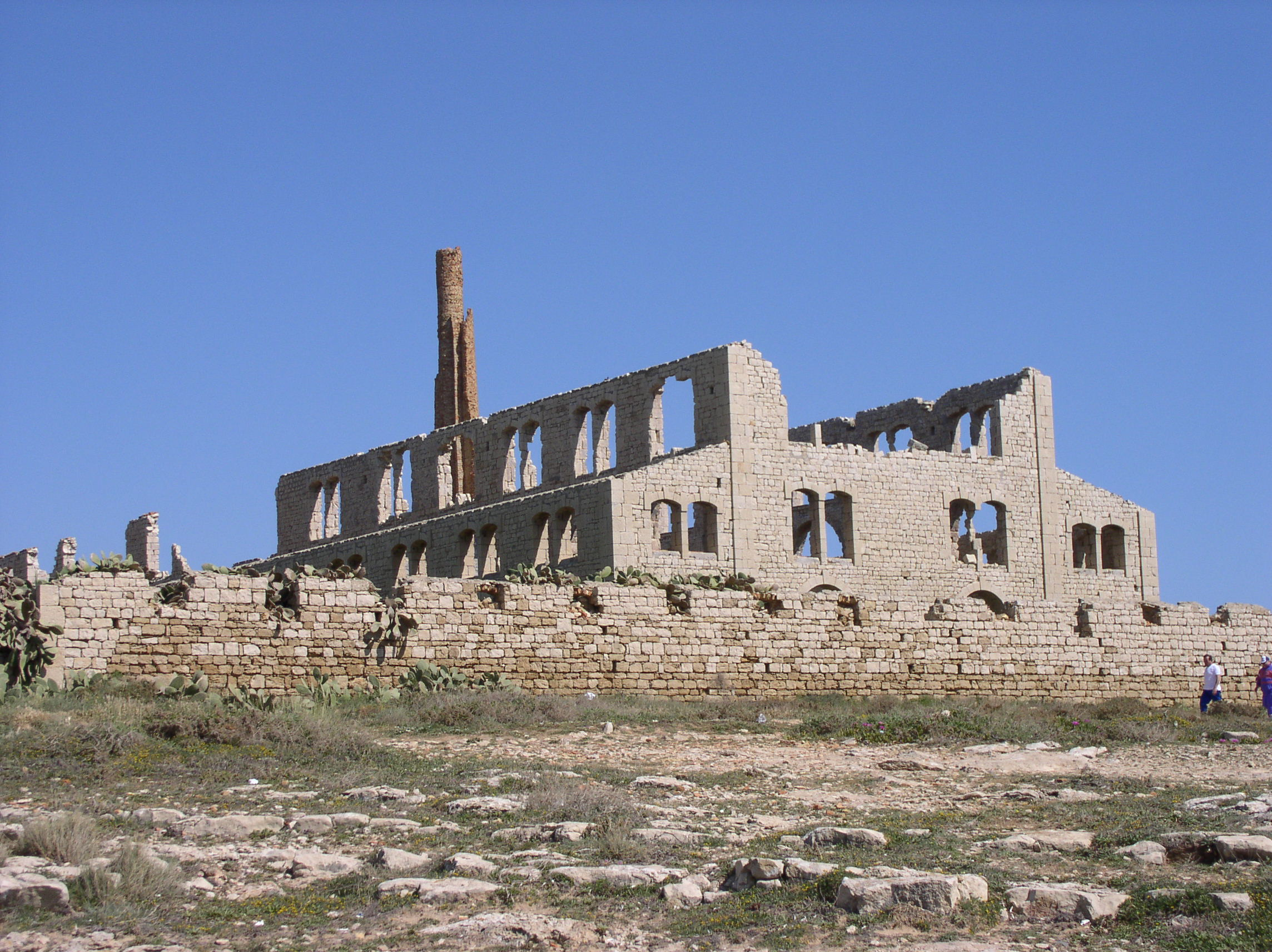 Fornace Penna: This is known as the "Stabilimento bruciato", near Scicli.